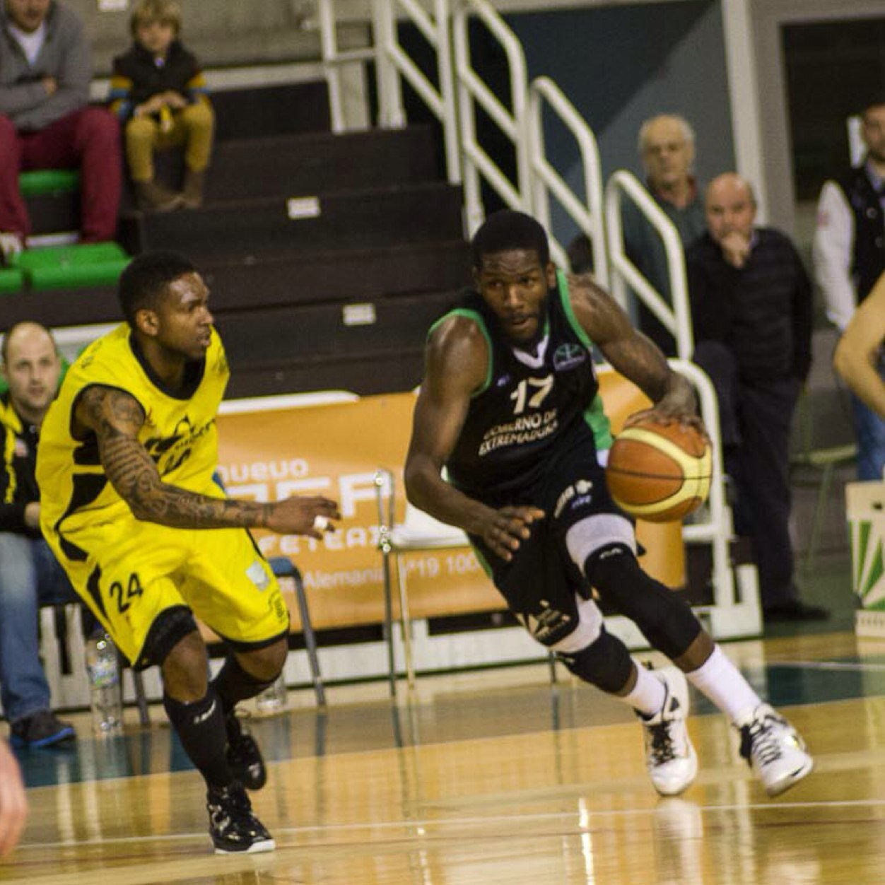 DuaneJames